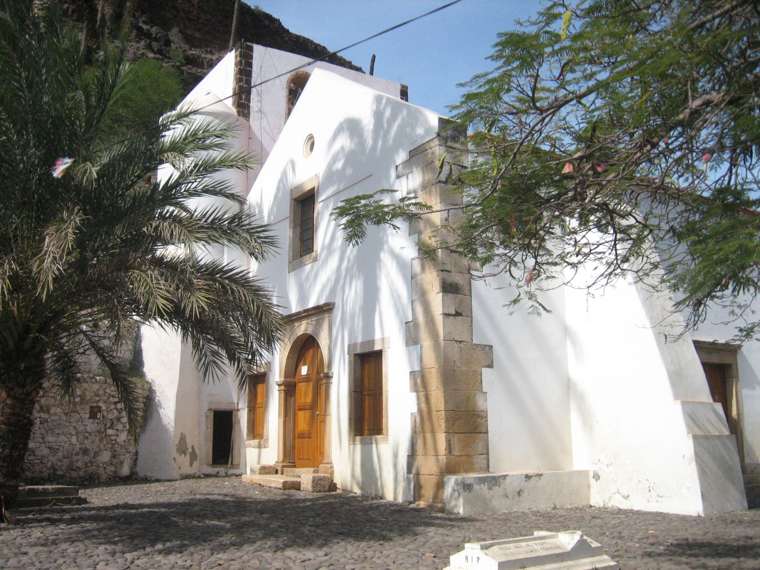 The church "Igreja de Nossa Senora do Rosário" of Cidade Velha on Santiago, Cape Verde